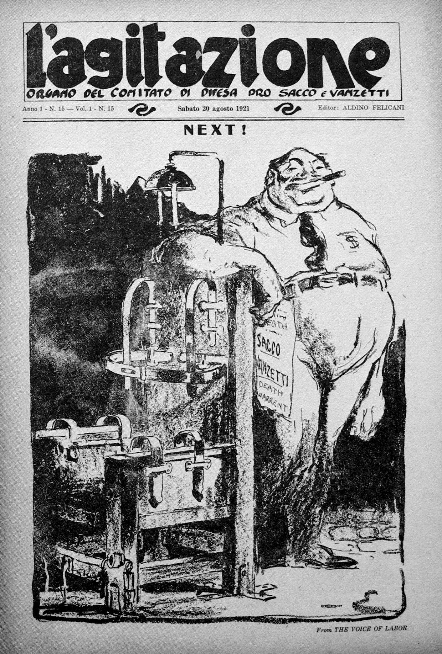 l'agitazione, 20 agosto 1921